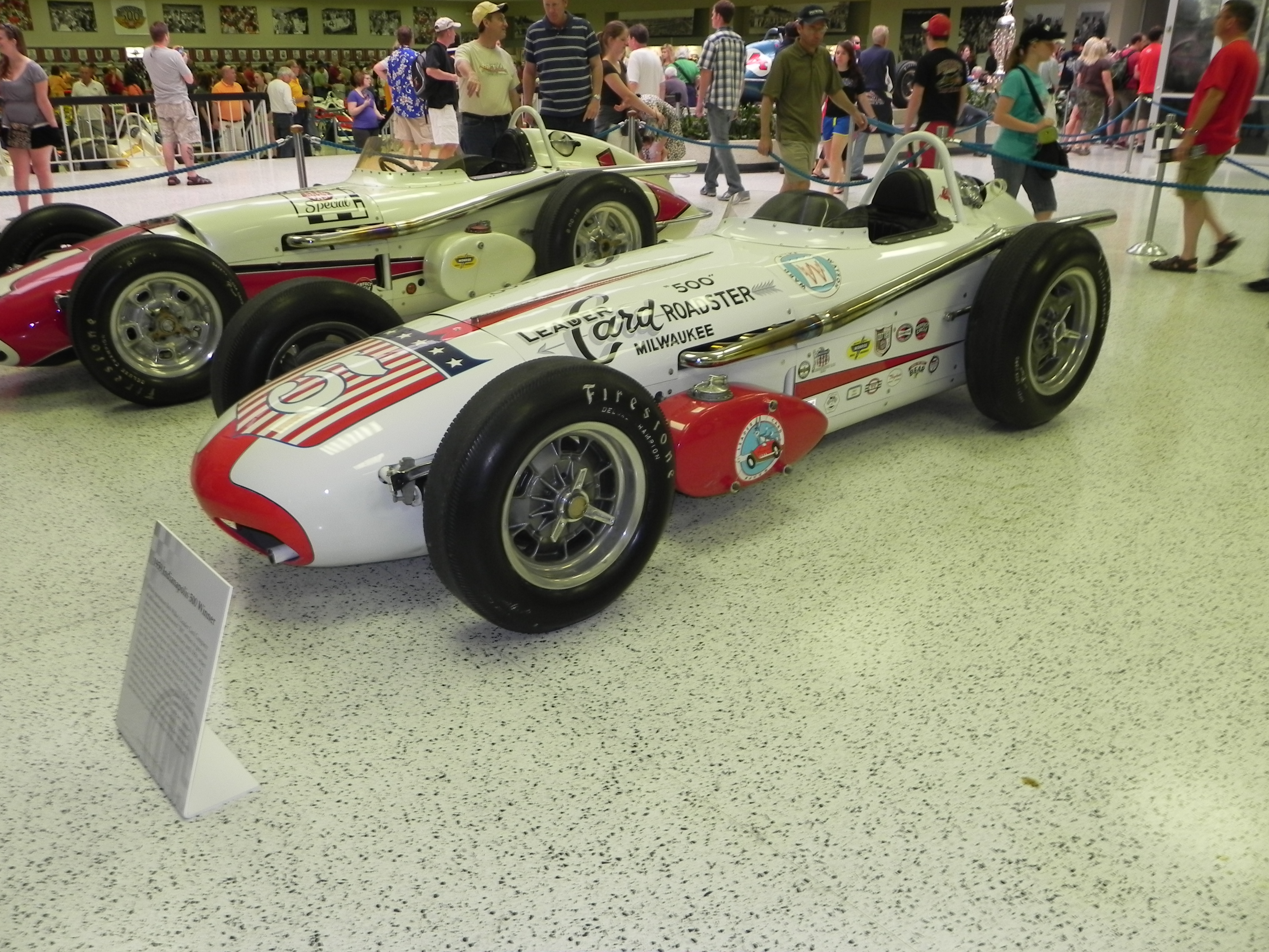 Image of the winning car of the 1959 Indianapolis 500 (Rodger Ward). Photo was taken at the Indianapolis Motor Speedway Hall of Fame Museum, during the month of May 2011, at the 100th Anniversary "Ultimate Indianapolis 500 Winning Car Collection."